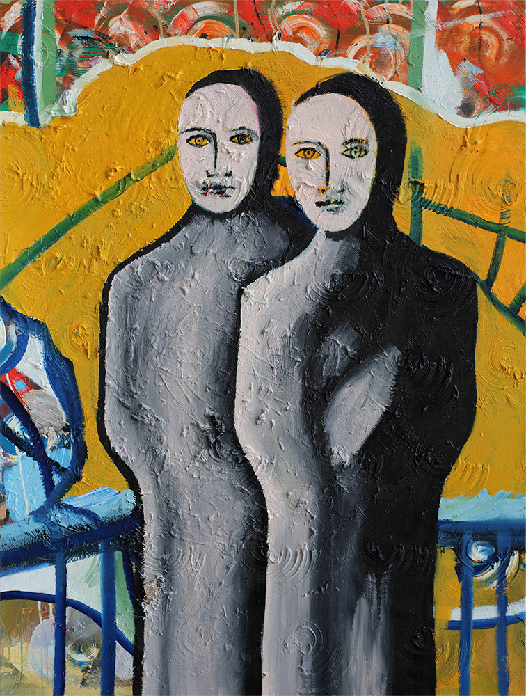 Painting by Sebastian Bieniek. Titled „Doppelgänger No. 1“, 2018. Oil on canvas. Berlin based artist. Painter.